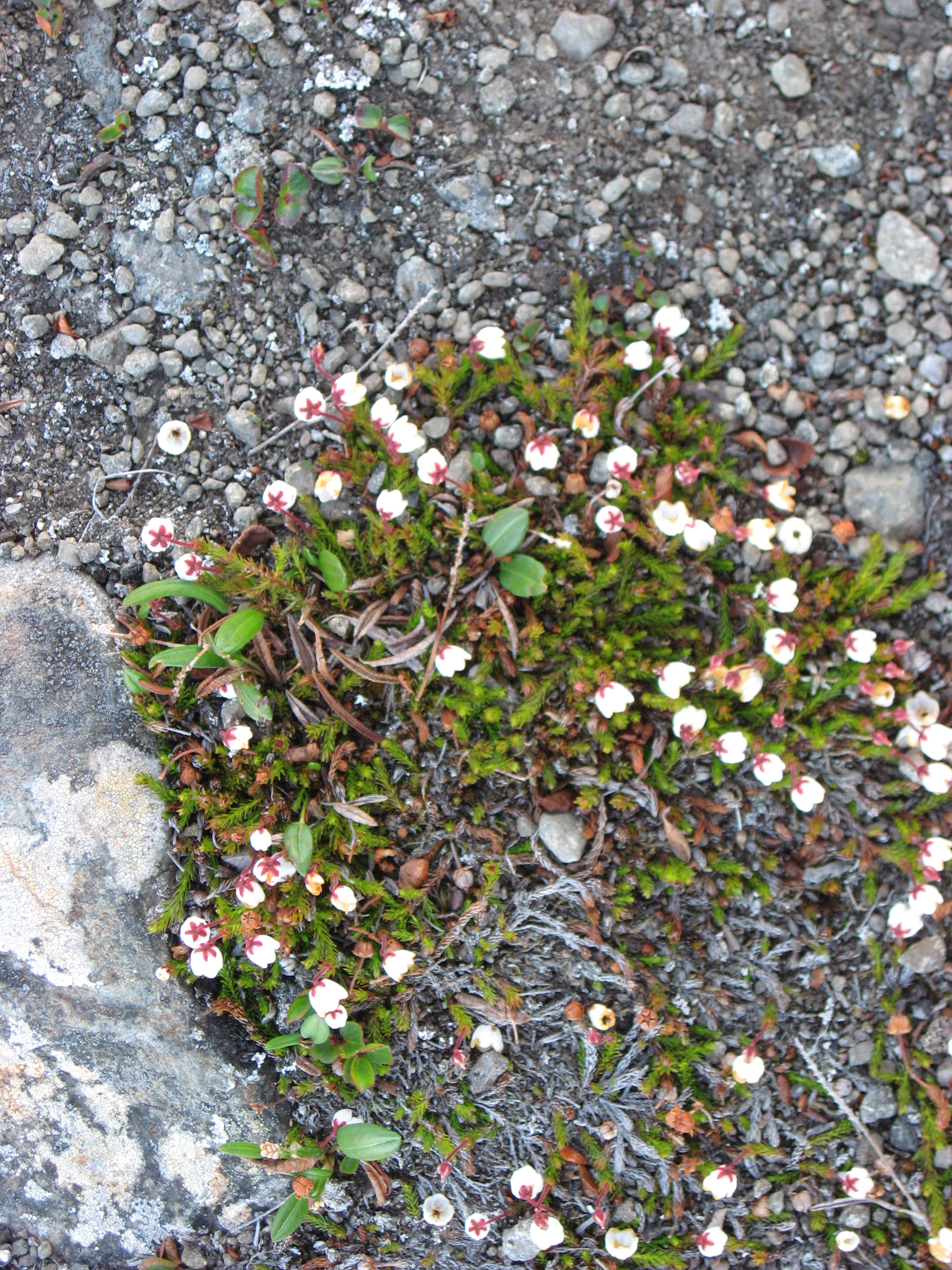 Mossplant (Harrimanella hypnoides) photographed near Upernavik Kujalleq, Greenland.